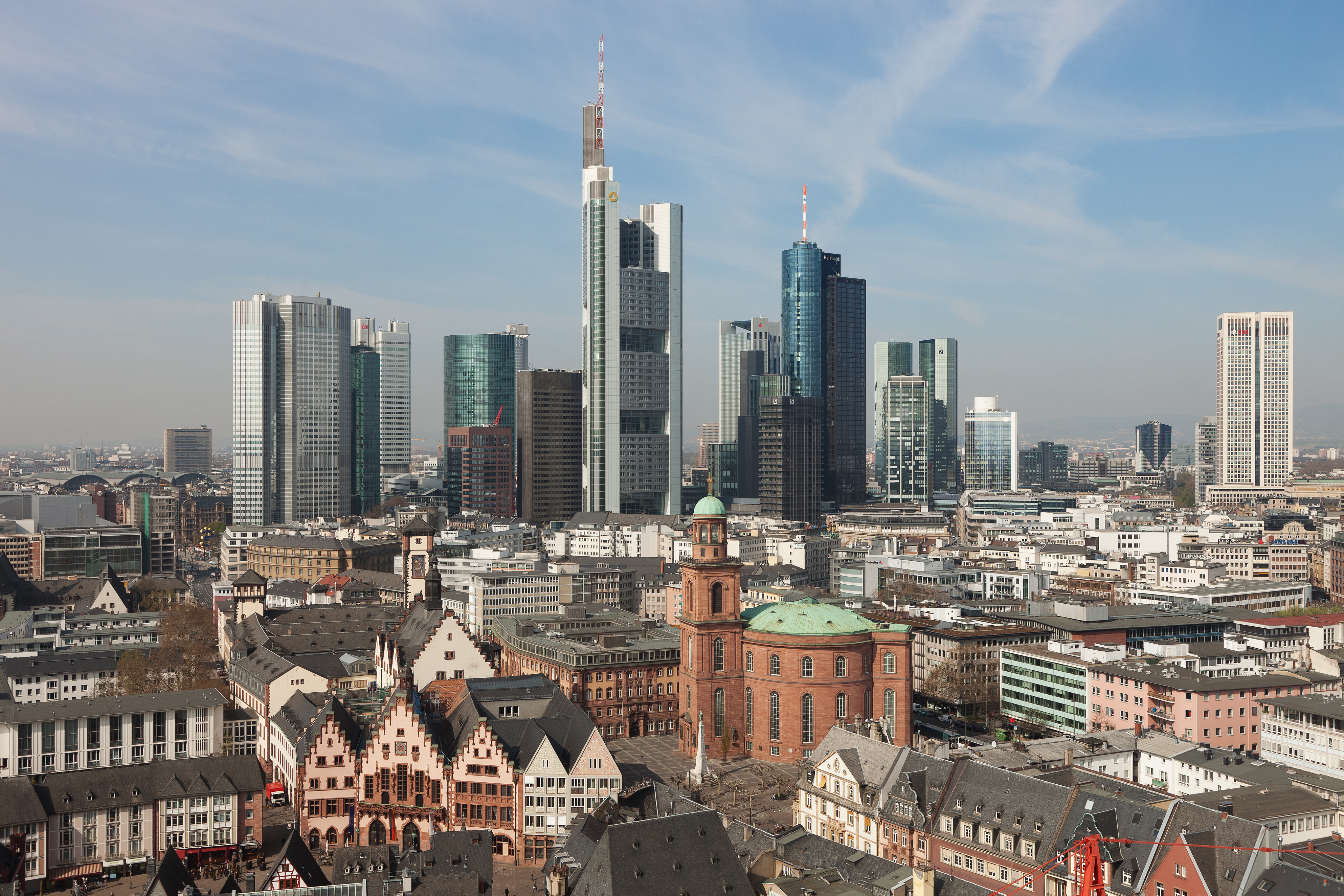 Historical city centre of Frankfurt (Germany) with Frankfurt Skyline behind